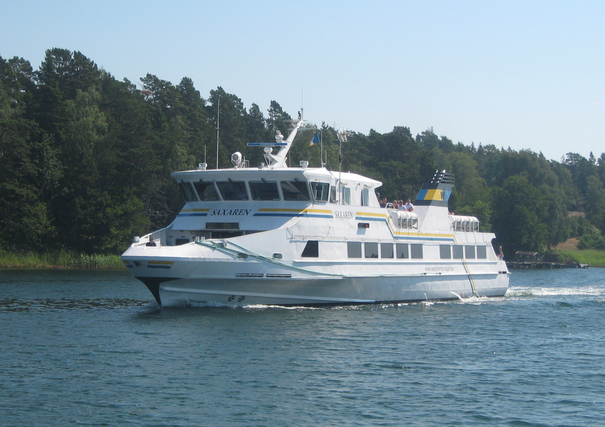 M/S Saxaren vid Kyrkviken, Ornö i Stockholms södra skärgård.